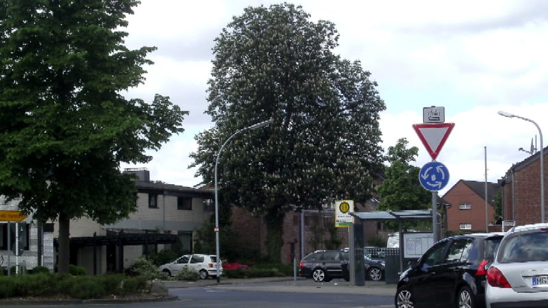 Winkeln, Mönchengladbach, Germany.